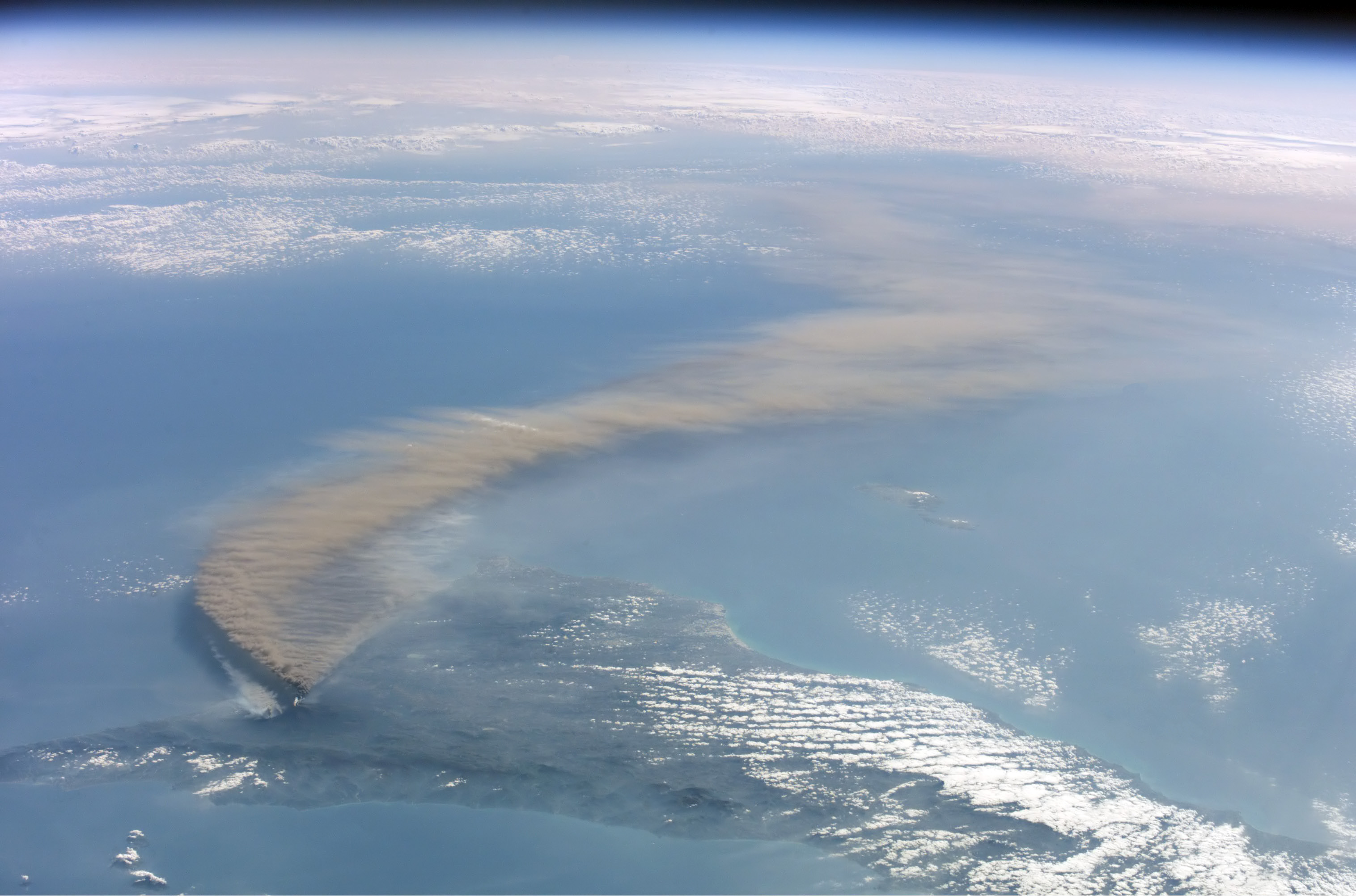 Smoke of Etna volcano seen from the International Space Station.